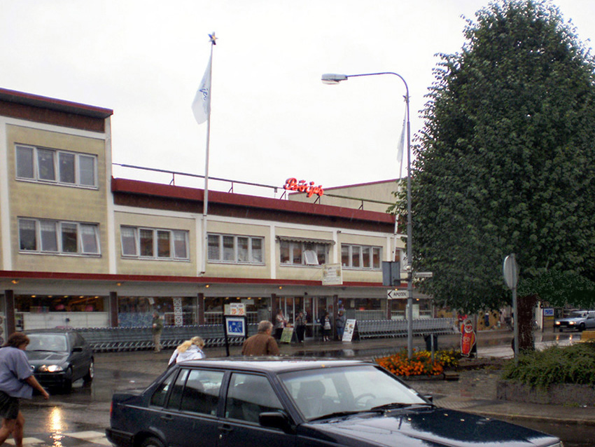 Tingsryd 2011